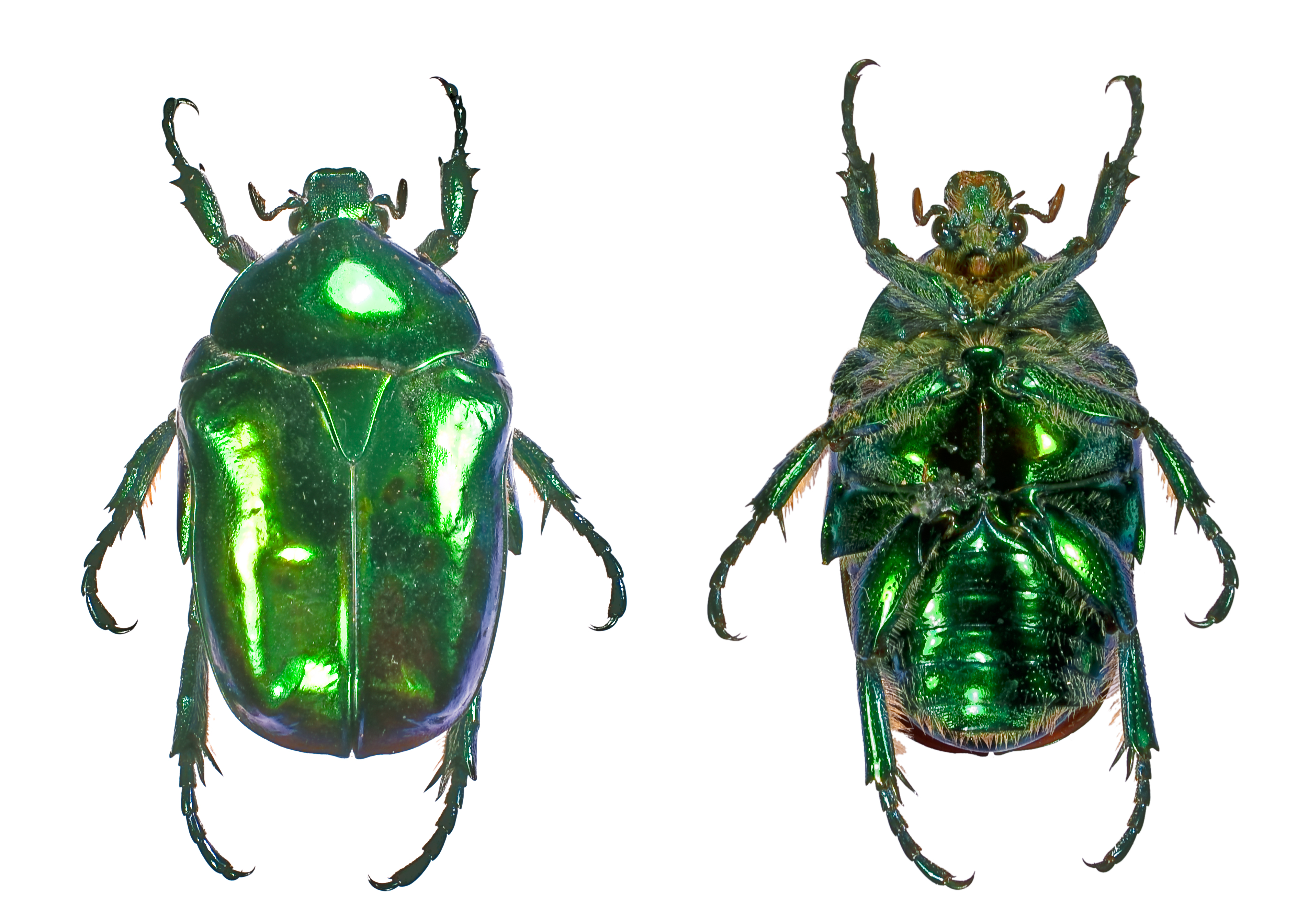 Protaetia (Cetonischema) aeruginosa (Linnaeus 1767) - Ventral and dorsal view of the same subject. France. Size 3.8cm